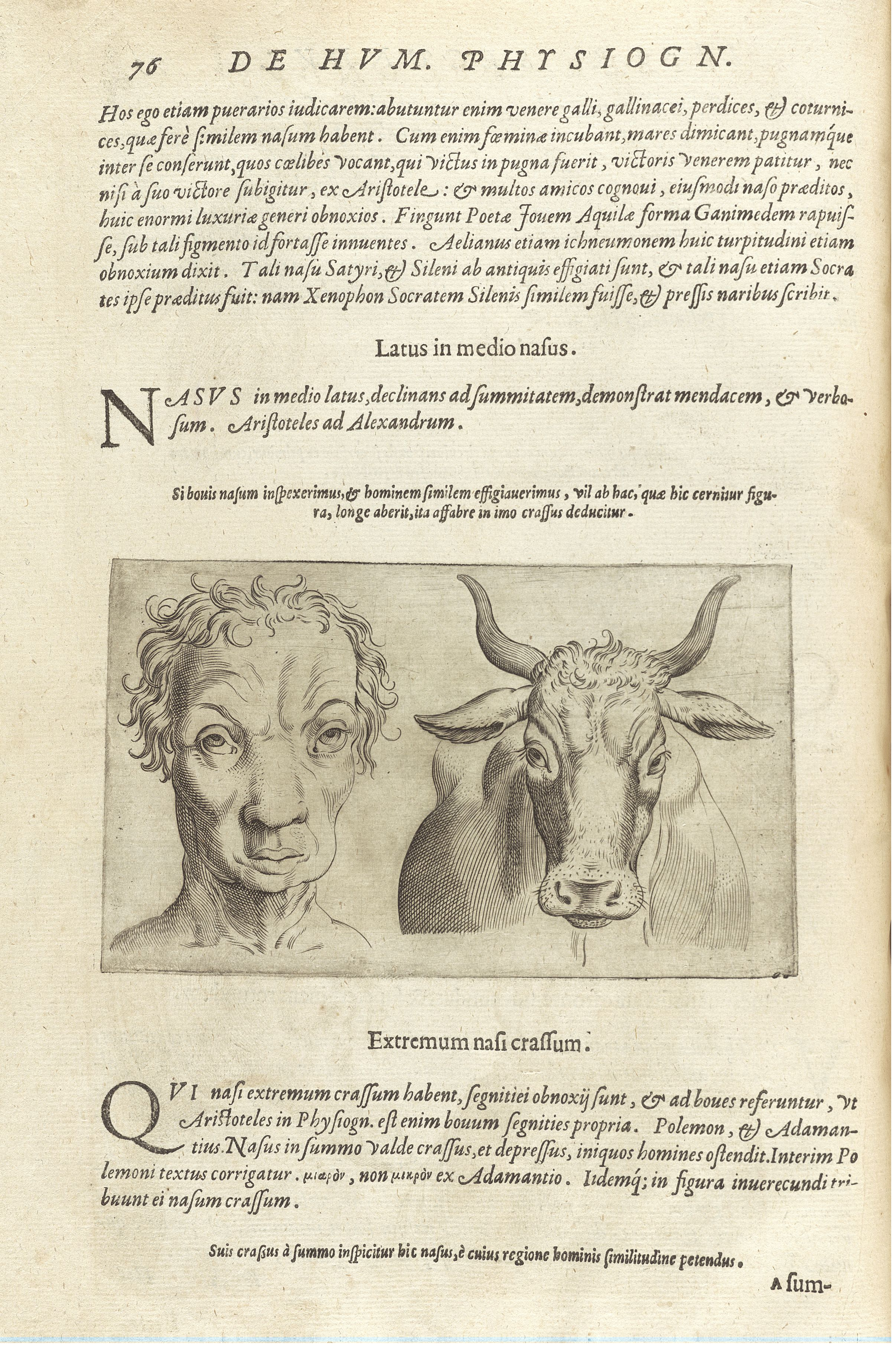 De humana physiognomonia libri IIII (1586) by Giambattista della Porta, page 76.